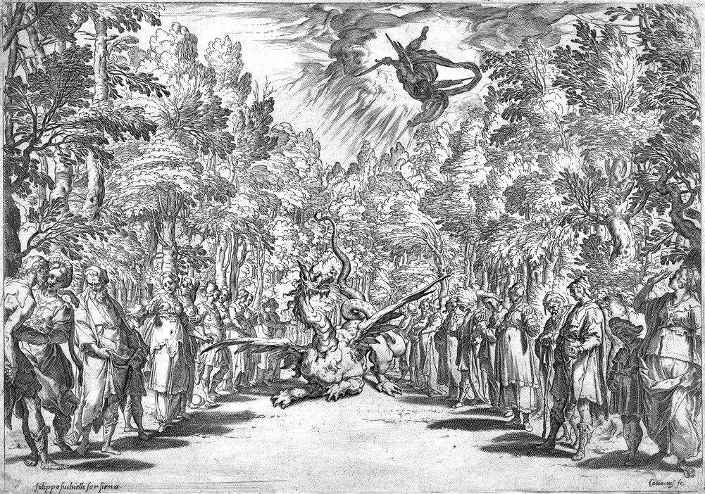 Stage design for the third Intermedio (Il combattimento pitico d’Apollo) at the Medici Wedding of 1589; engraved by Carracci after a drawing by Bernardo Buontalenti